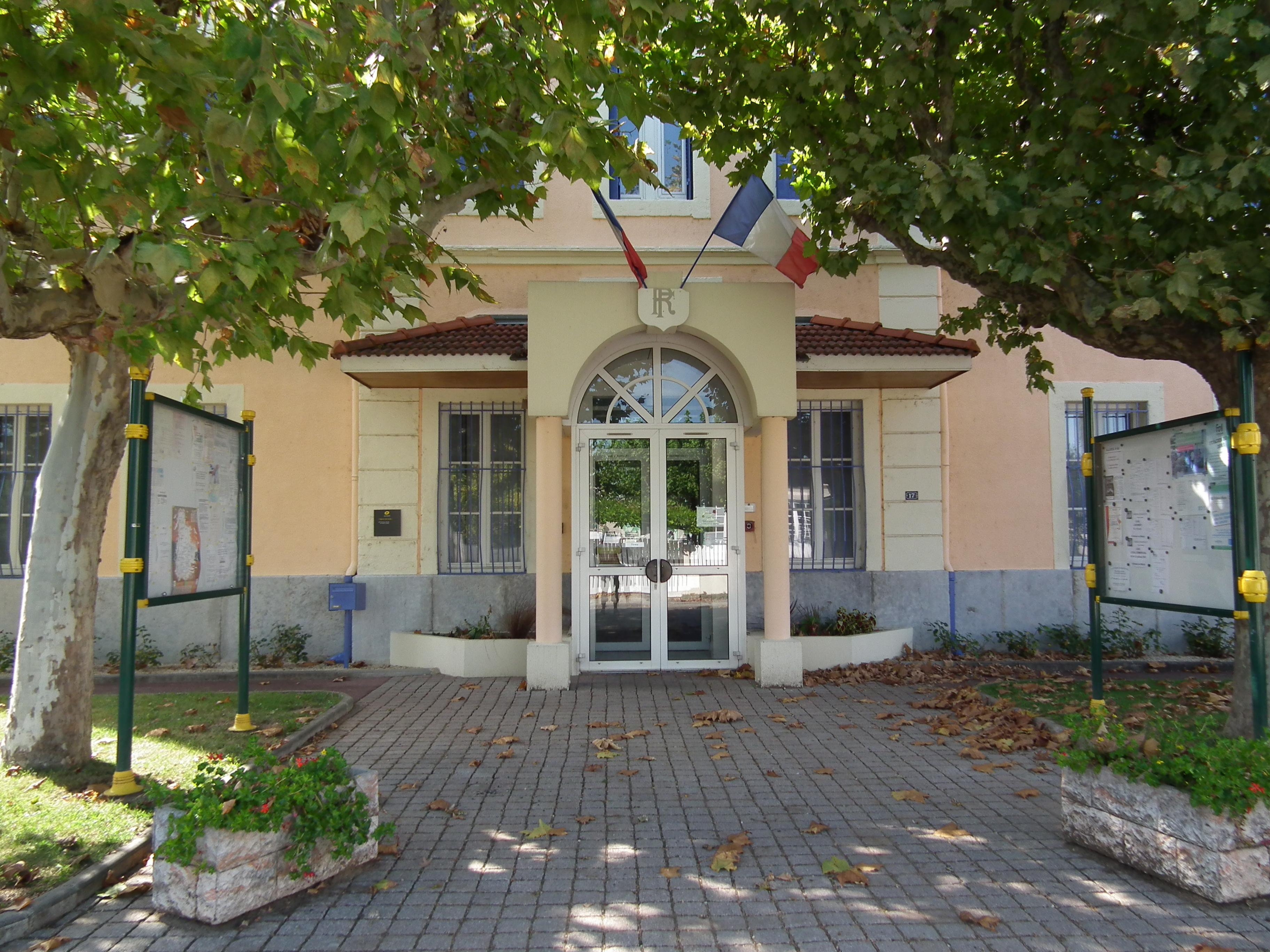 Town hall of Andancette - Drôme - France